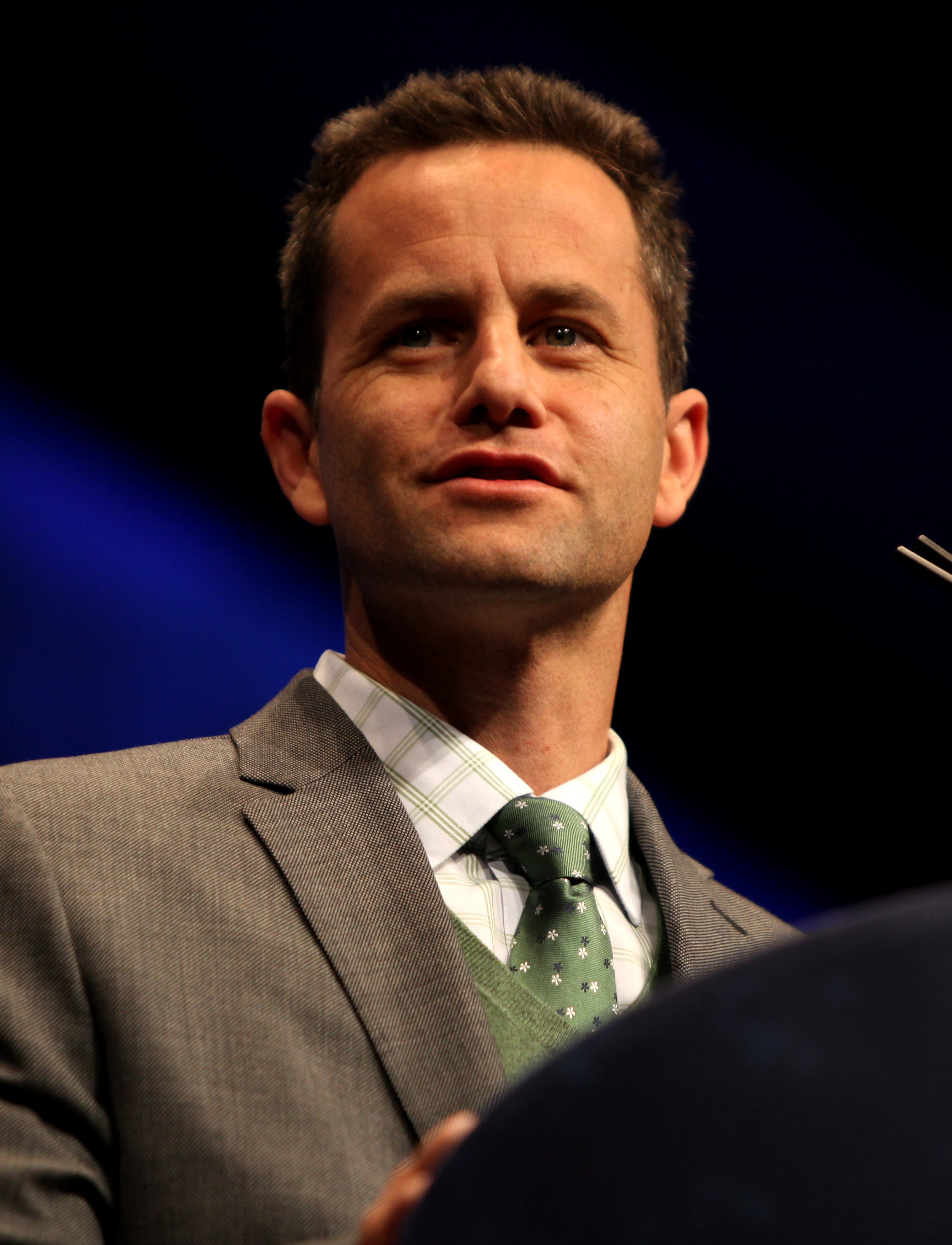 Kirk Cameron speaking at CPAC in Washington D.C. on February 9, 2012.